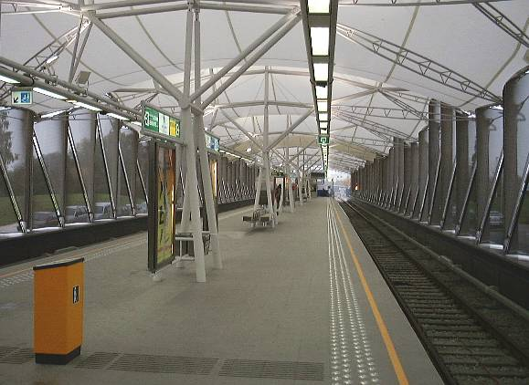 Platform of Erasmus / Erasme station, Brussels metro